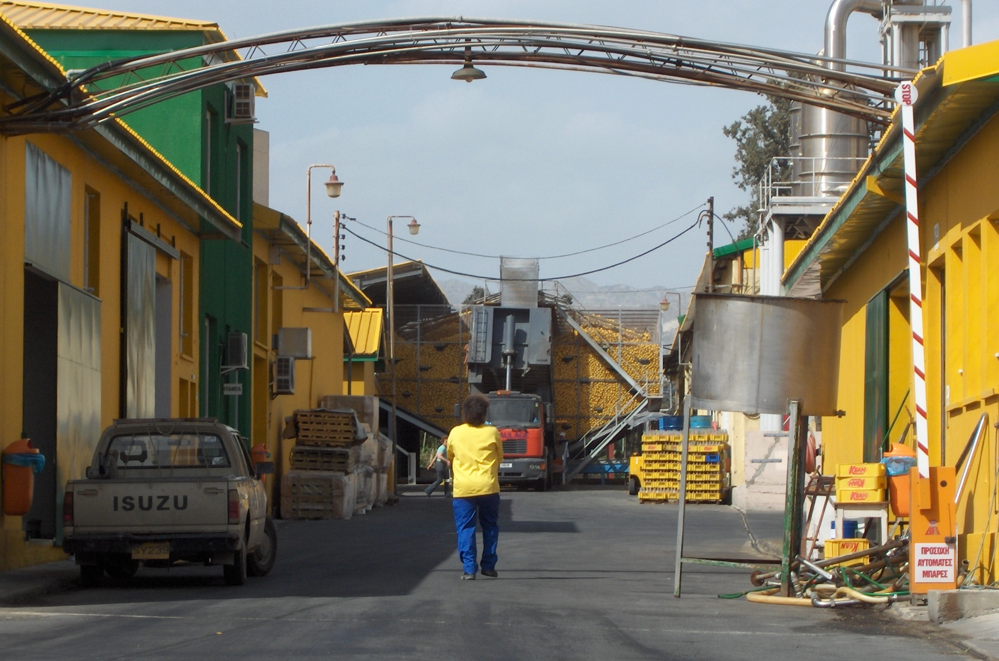 Orange hill in the Kean factory of Limassol